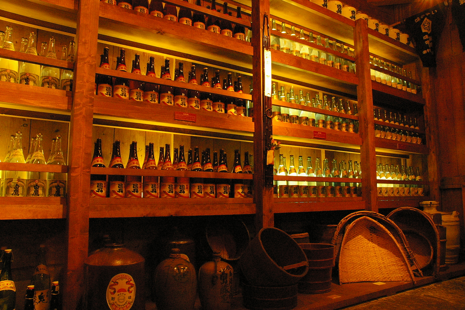 Kunimare Brewing scientific library, Mashike town hokkaido.